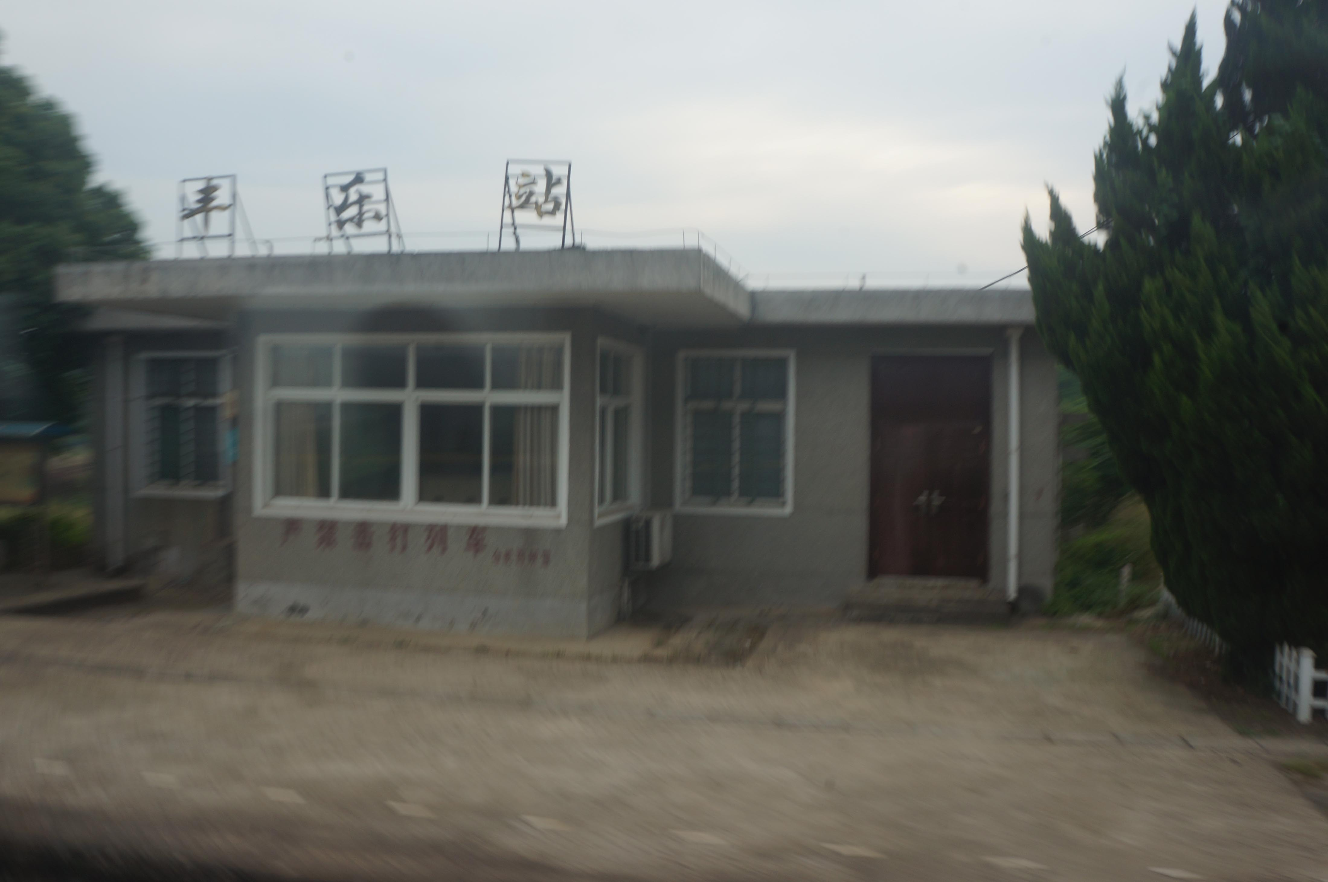 Next Station, Shucheng